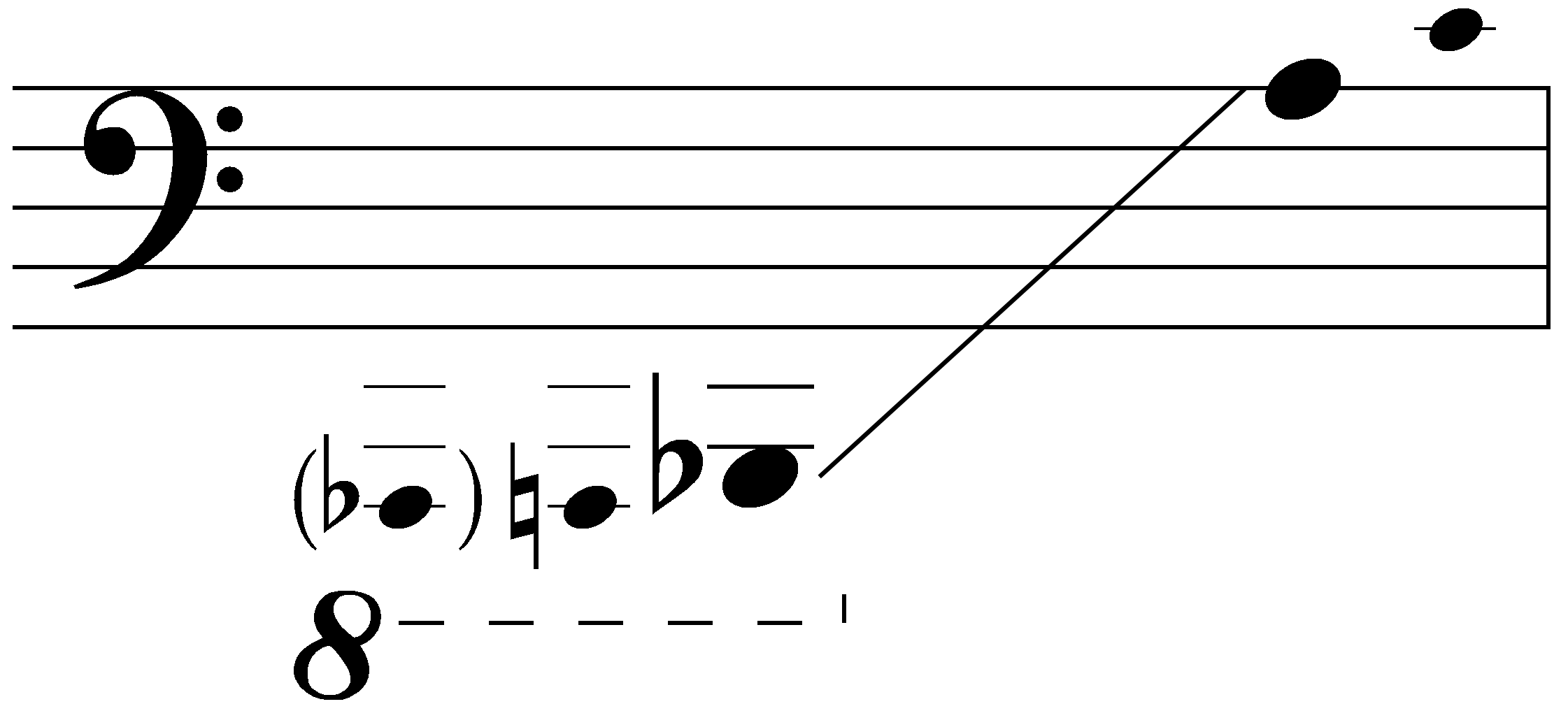 Sounding range of a contrabassoon, created with Finale